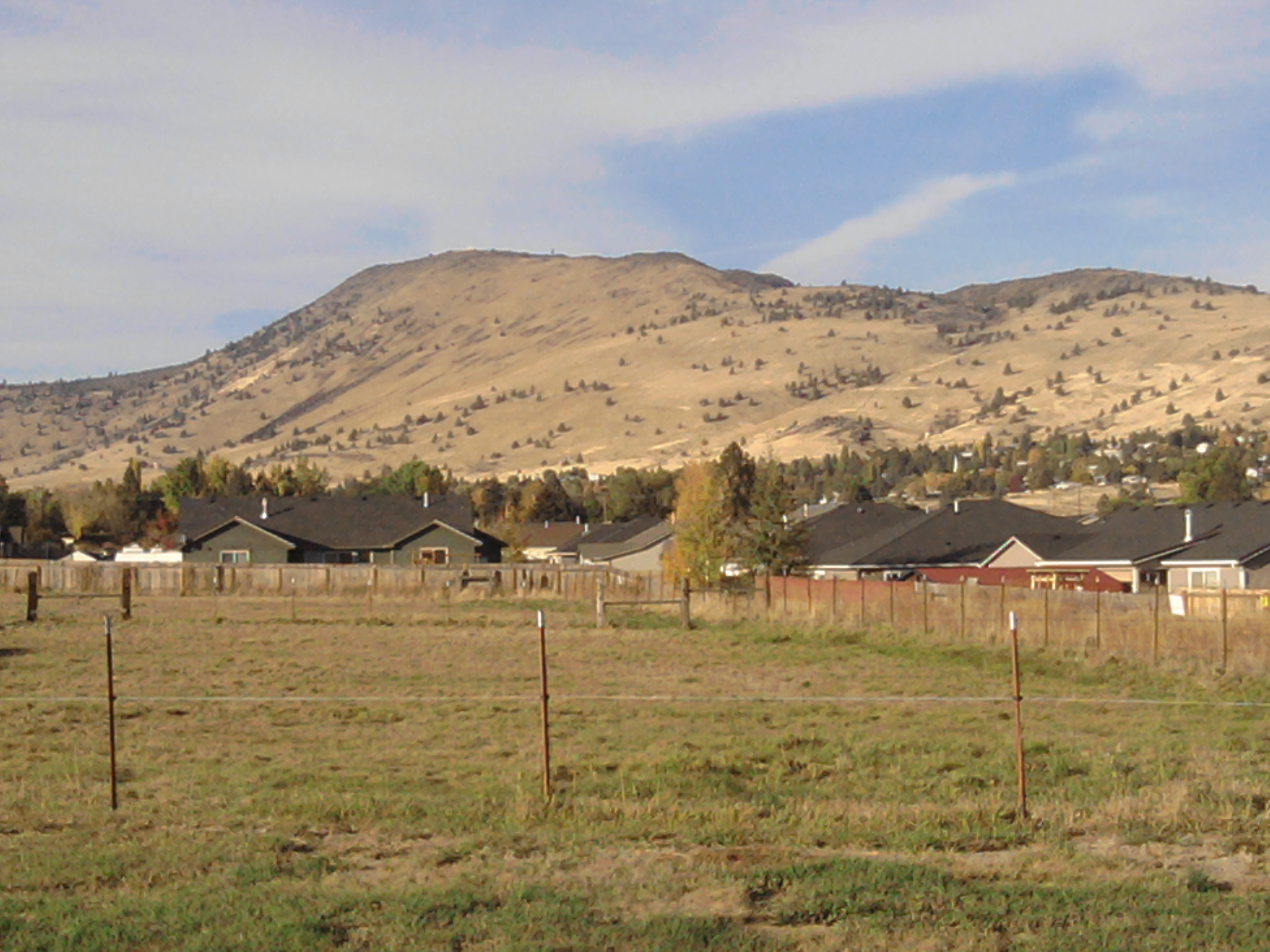 Hogback Mountain in Klamath County, Oregon, viewed from eastern Klamath Falls along the OC&E Trail.